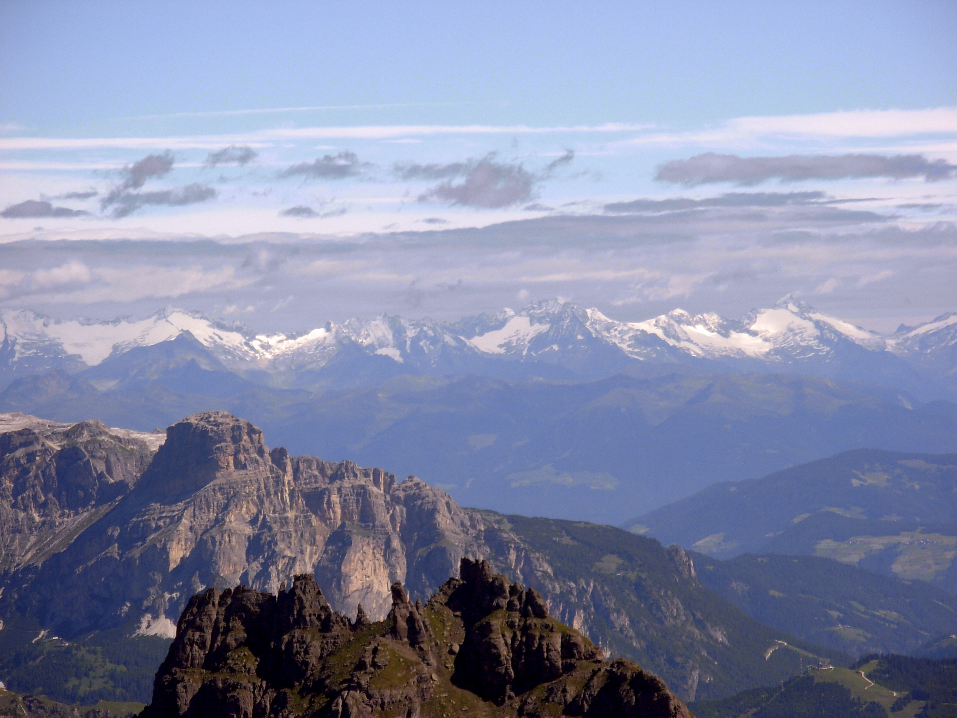 Eastern Alps, view from Marmolada